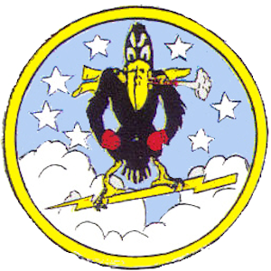 Emblem of the 458th Strategic Fighter Squadron (approved 24 April 1954)